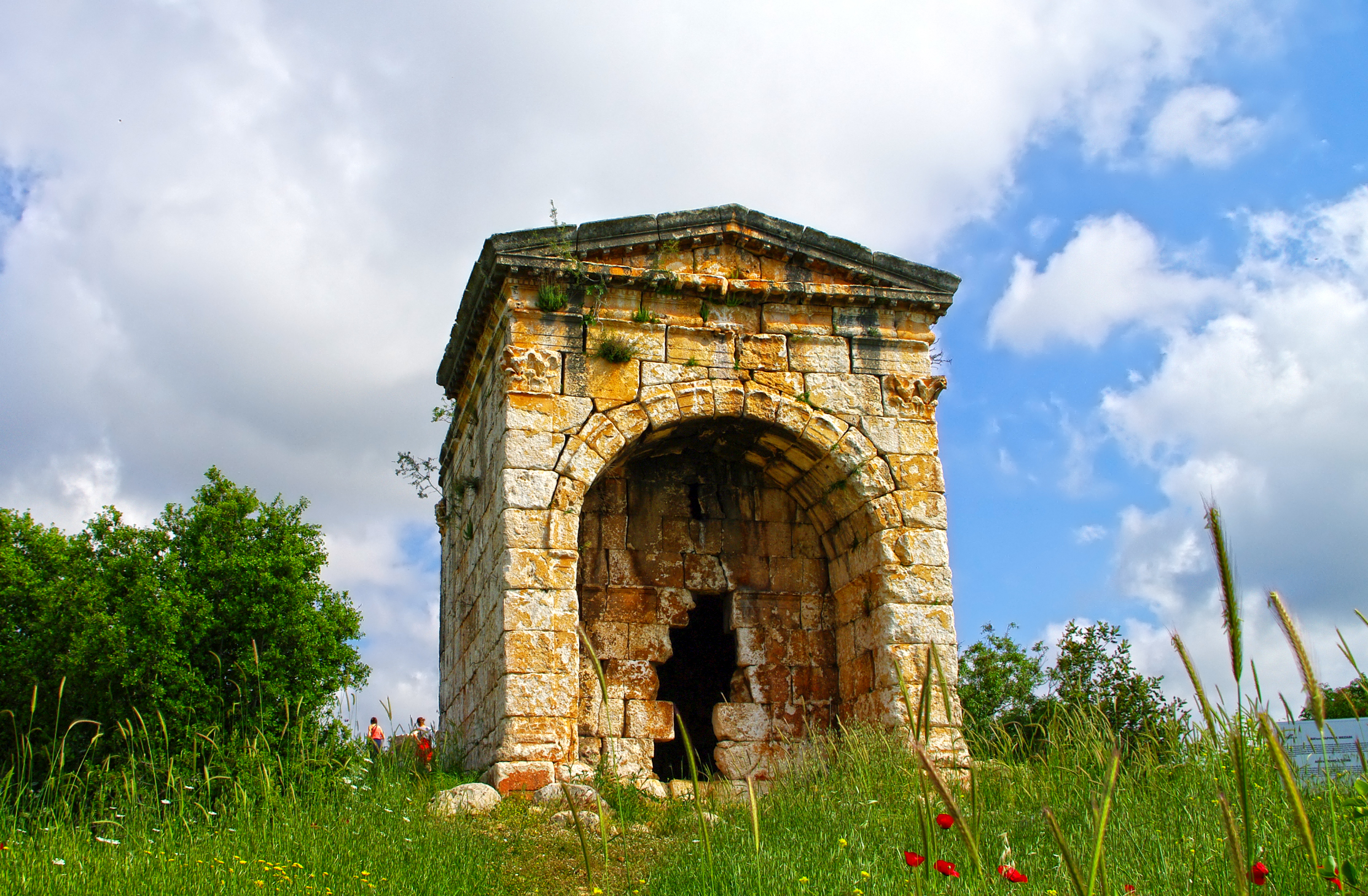 Aba's Temple Tomb which has been built for her husband and sons. Kanytelleis. Erdemli, Mersin - Turkey